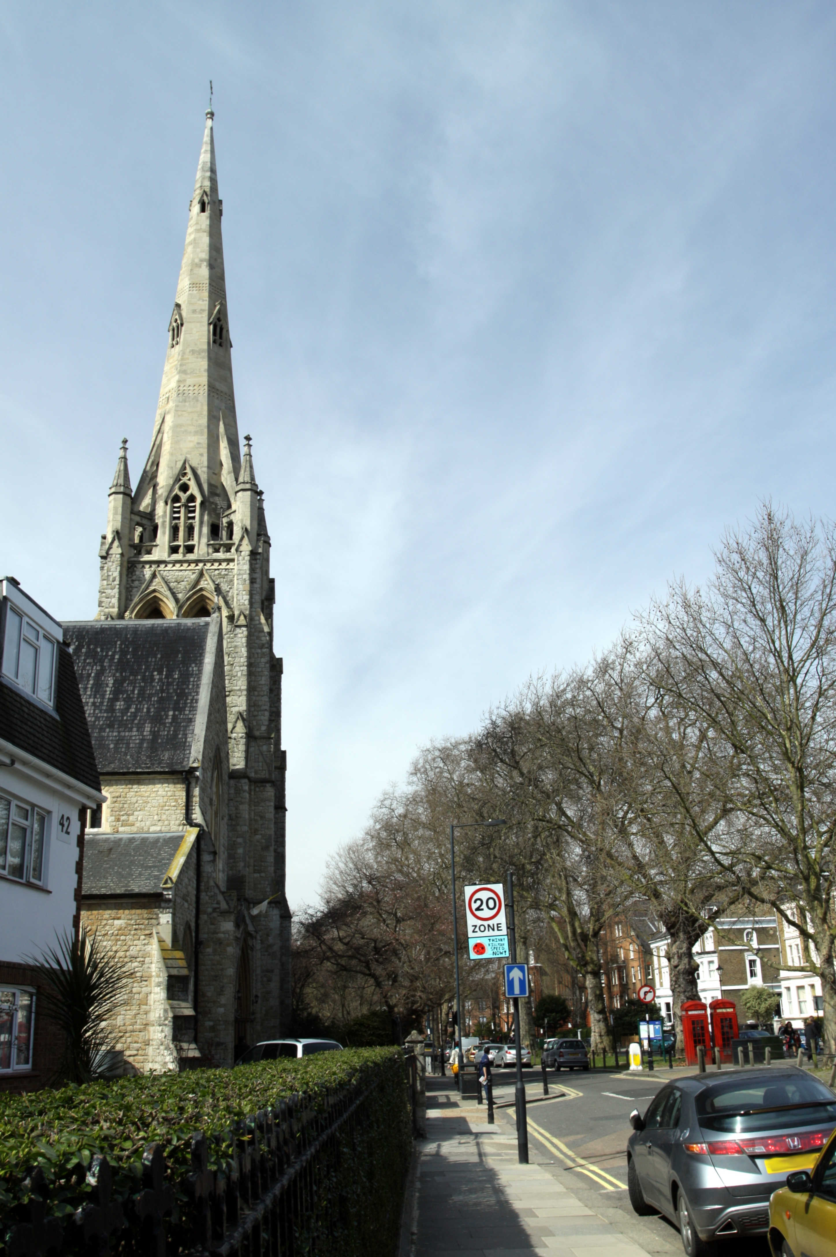 Church of Holy Trinity R.C. in Brook Green in the London Borough of Hammersmith and Fulham, London, Great Britain. The making of this file was supported by Wikimedia UK.